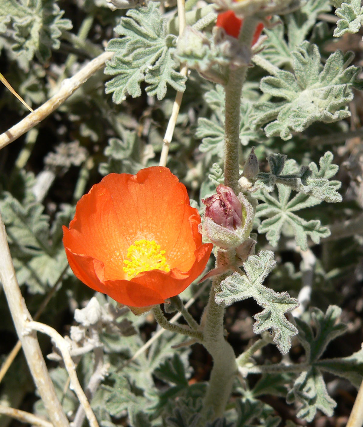 Sphaeralcea grossulariifolia in burned area along highway 158 southwest of Robber's Roost, Kyle Canyon, Spring Mountains, southern Nevada (elev. about 2300 m)